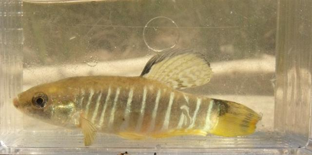 A spawning male Aphanius fasciatus in Parco Regionale della Maremma, Grosseto Province, Tuscany, Italy